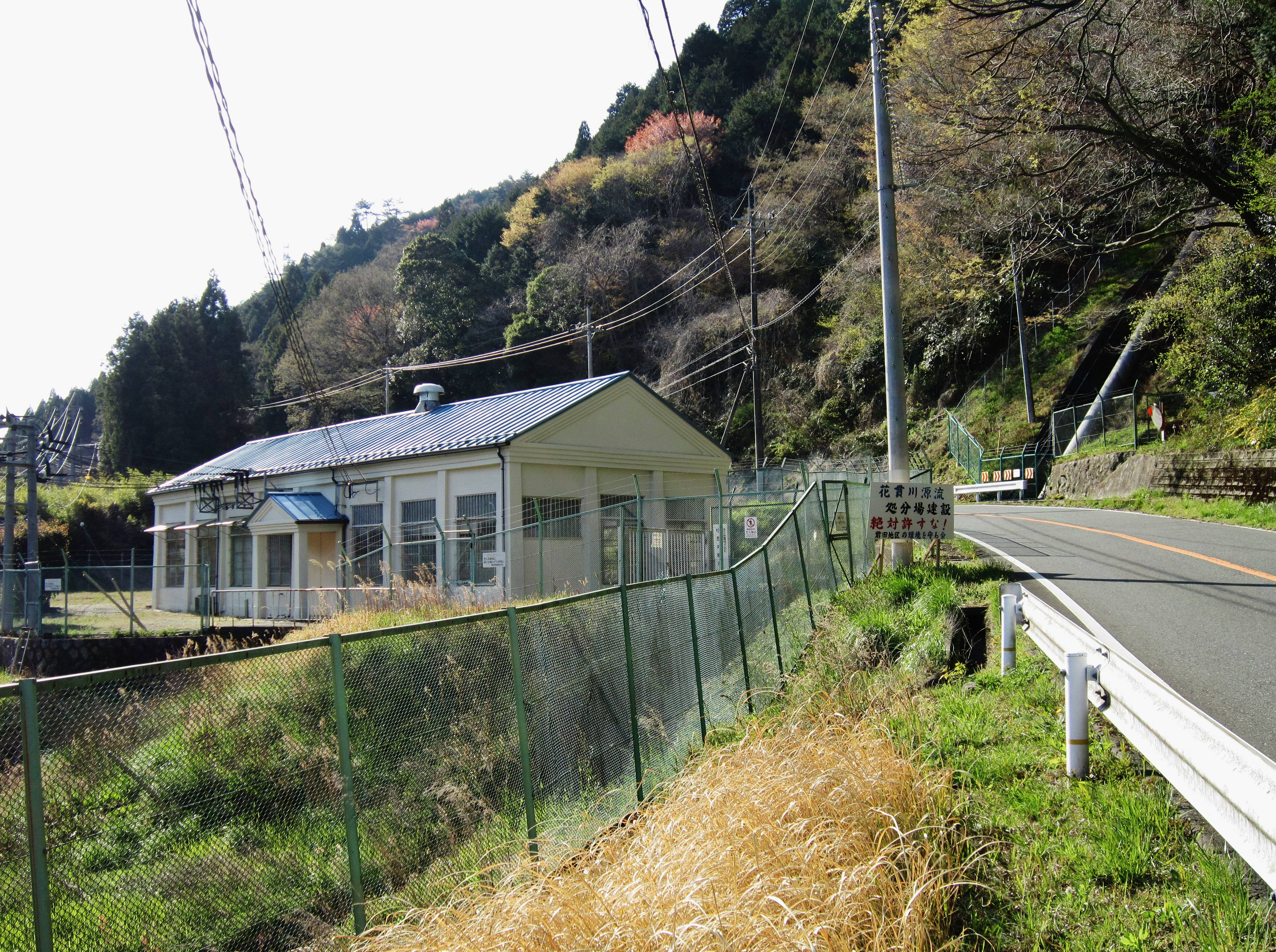 Matsubara hydroelectric power station.